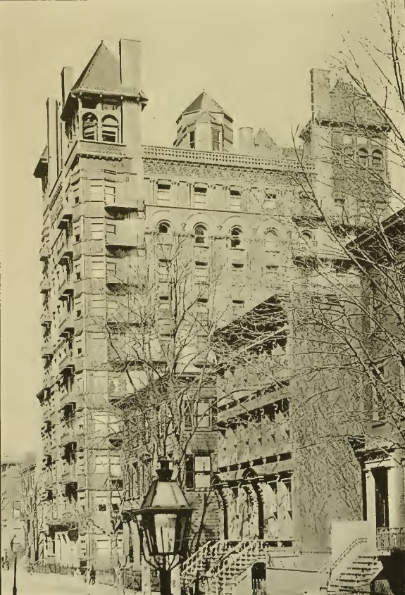 The Hotel Margaret of Brooklyn Heights, not long after its completion in 1888.